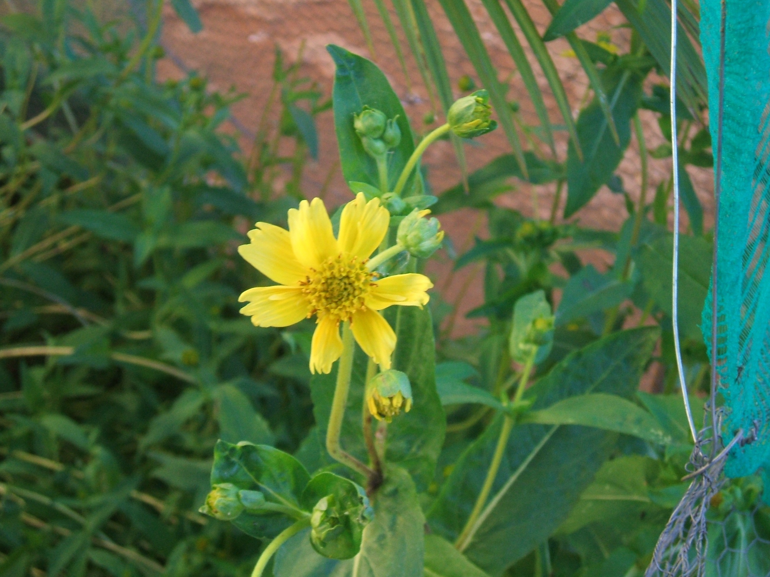 picture of Guizotia abyssinica placed in south of Minas Gerais state - Brazil